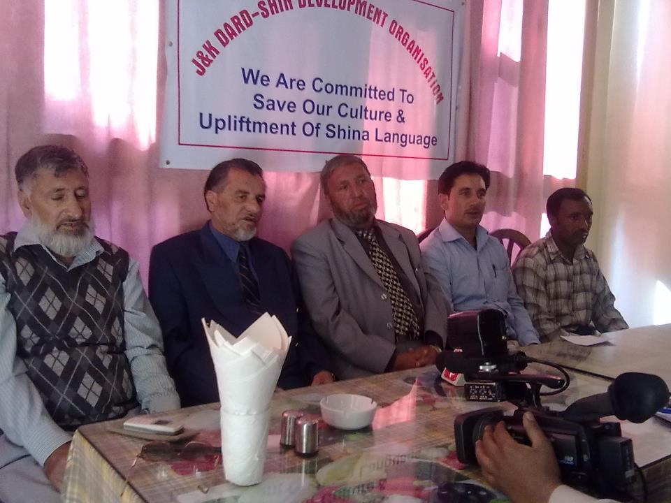 Late Hajji Abdul Aziz Samoon at a press conference along with other members of Dard Shin Development Organisation. Hajji Abdul Aziz Samoon was the chairman of DSDO.